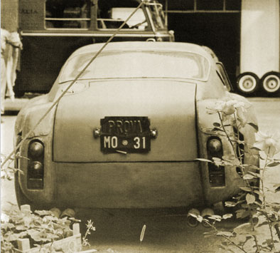 Rear of Ferrari 250 GTO prototype in 1961. "Prova MO 31" it says. Looks a bit like the 250 GT SWB, perhaps that was its origins?